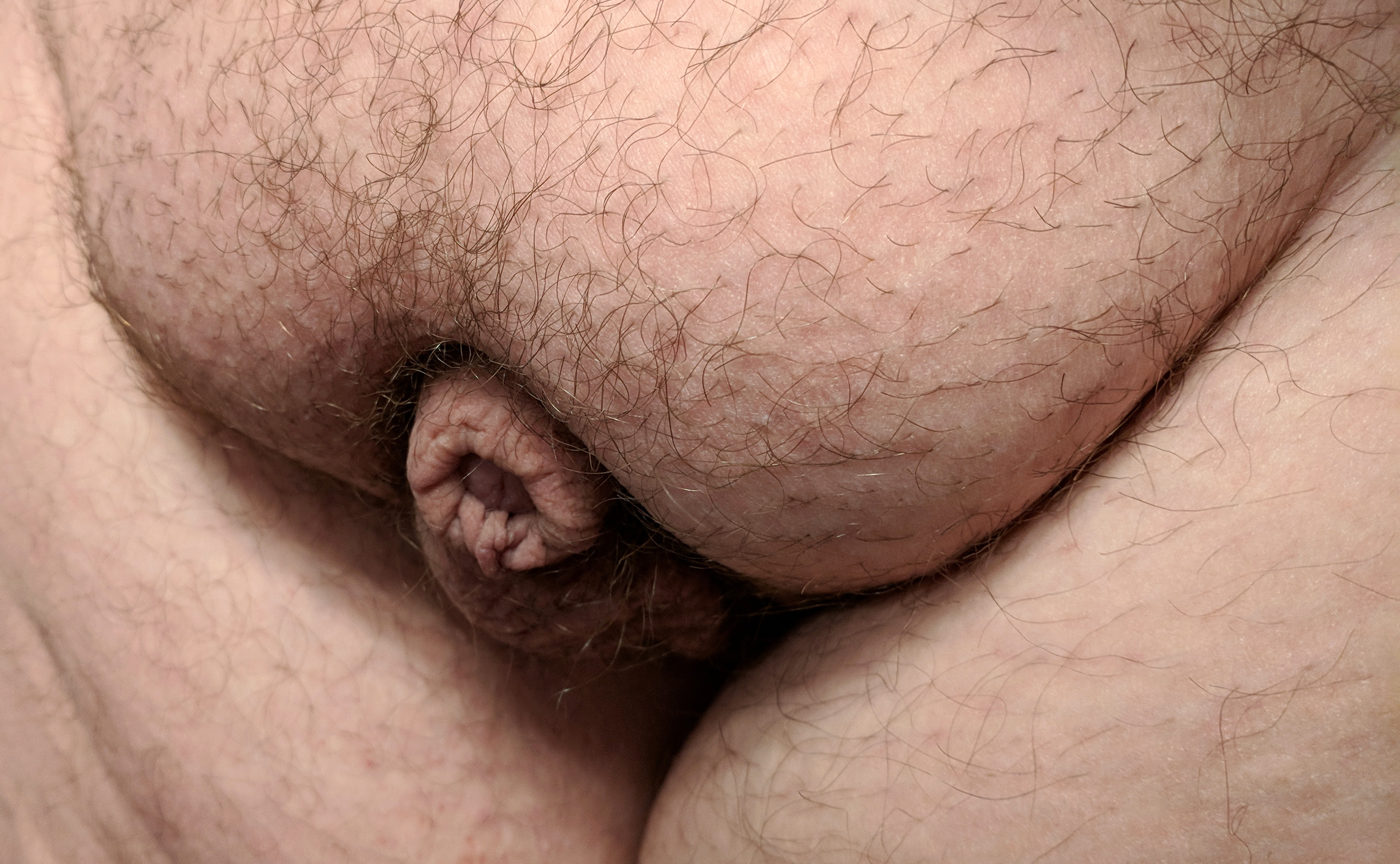 Buried penis in a circumcised 40 year old male due to obesity